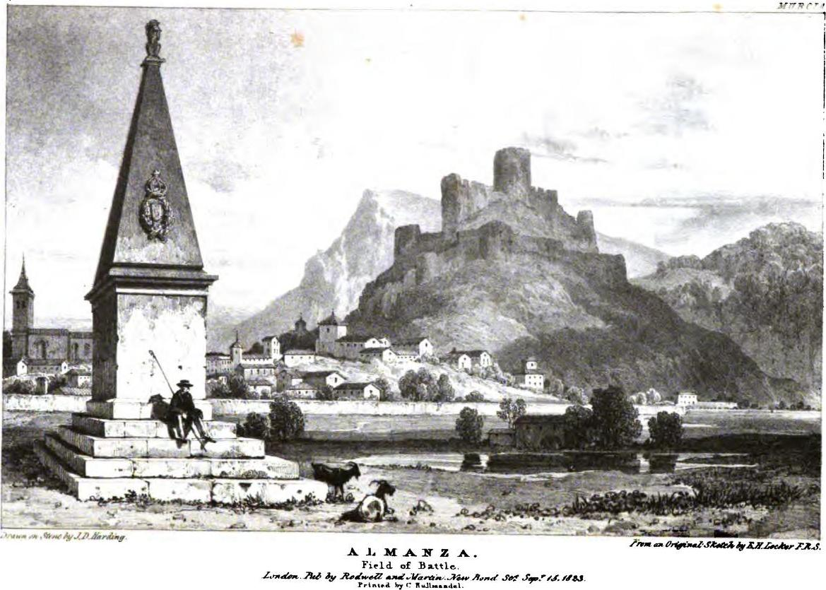 Almanza (work "Views in Spain")